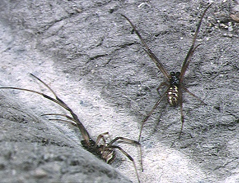 male Latrodectus geometricus from Okinawa.